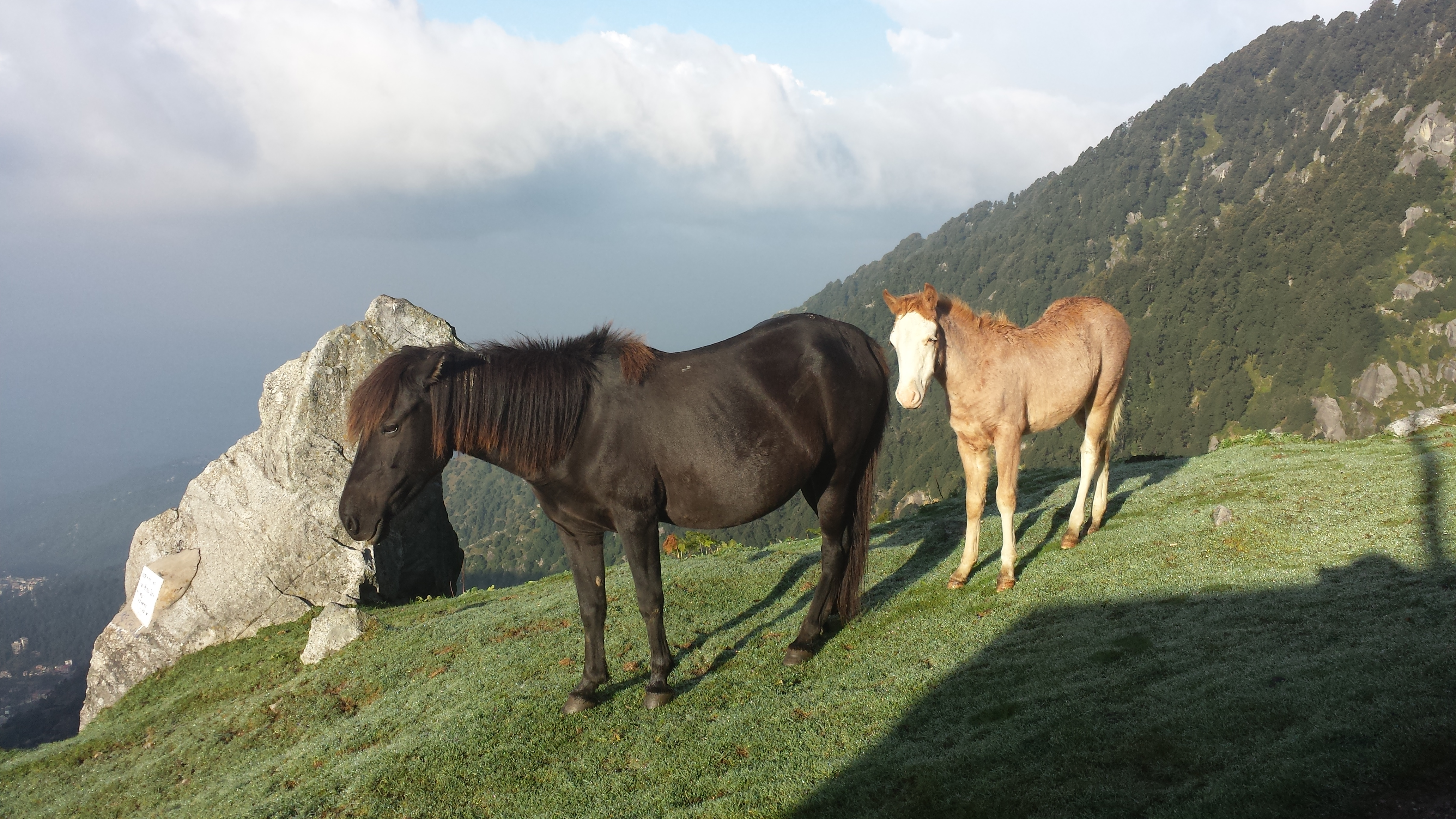 Two horses at Triund campsite, McLeod Ganj, India, in September 2014.